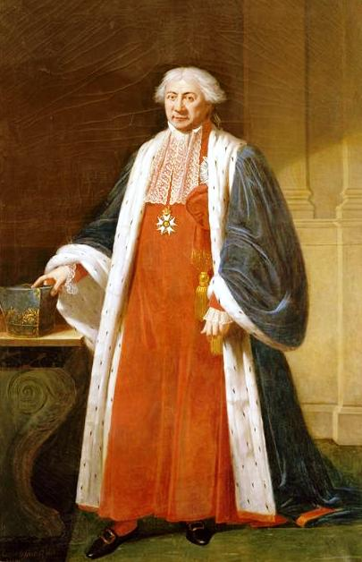 Portrait of Claude Ambroise Régnier (1736–1814), Duke of Massa, wearing the medal of the Ordre national de la Légion d'honneur (National Order of the Legion of Honour).